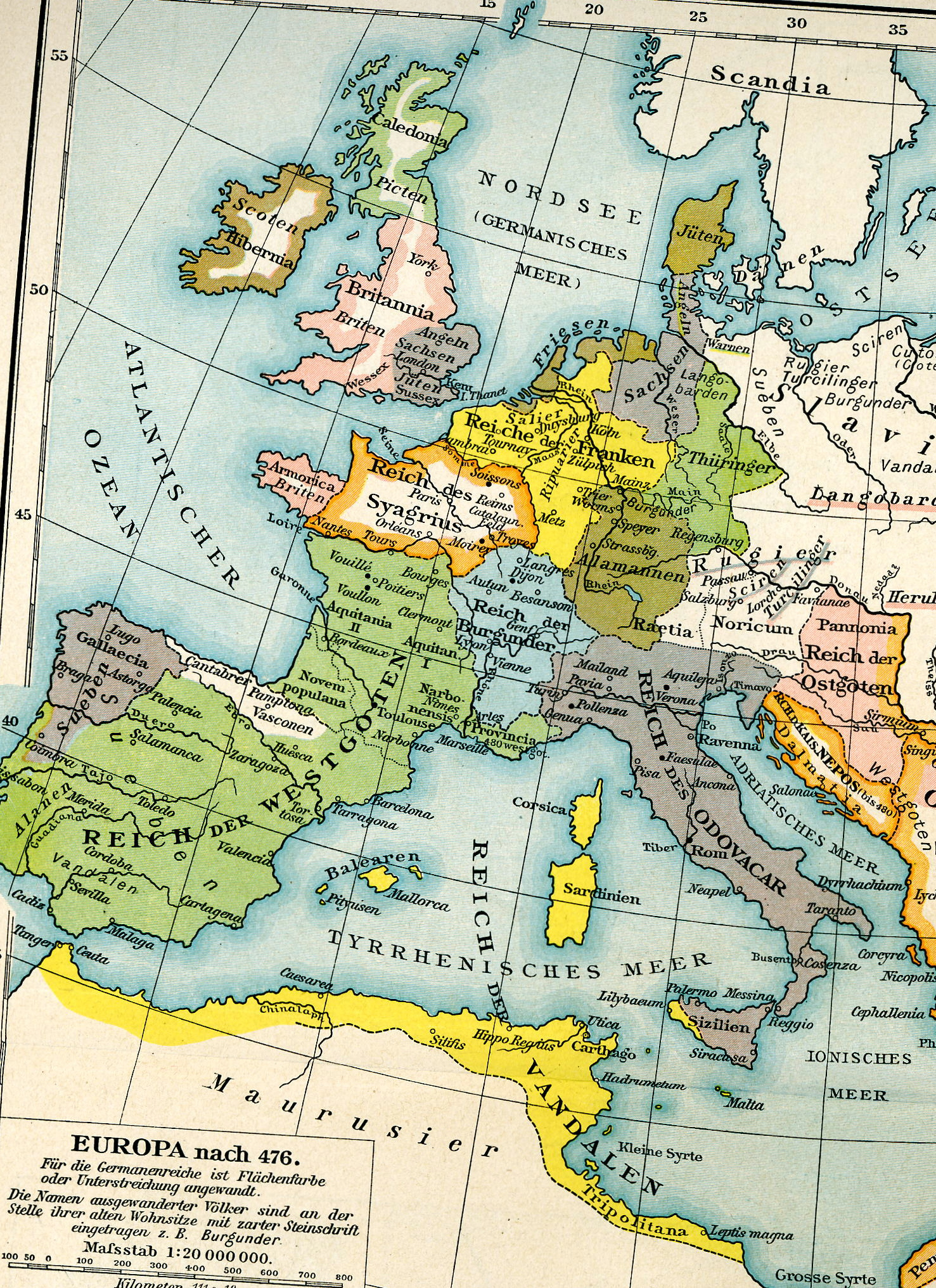 Kingdom of Vandals (475 a. D)